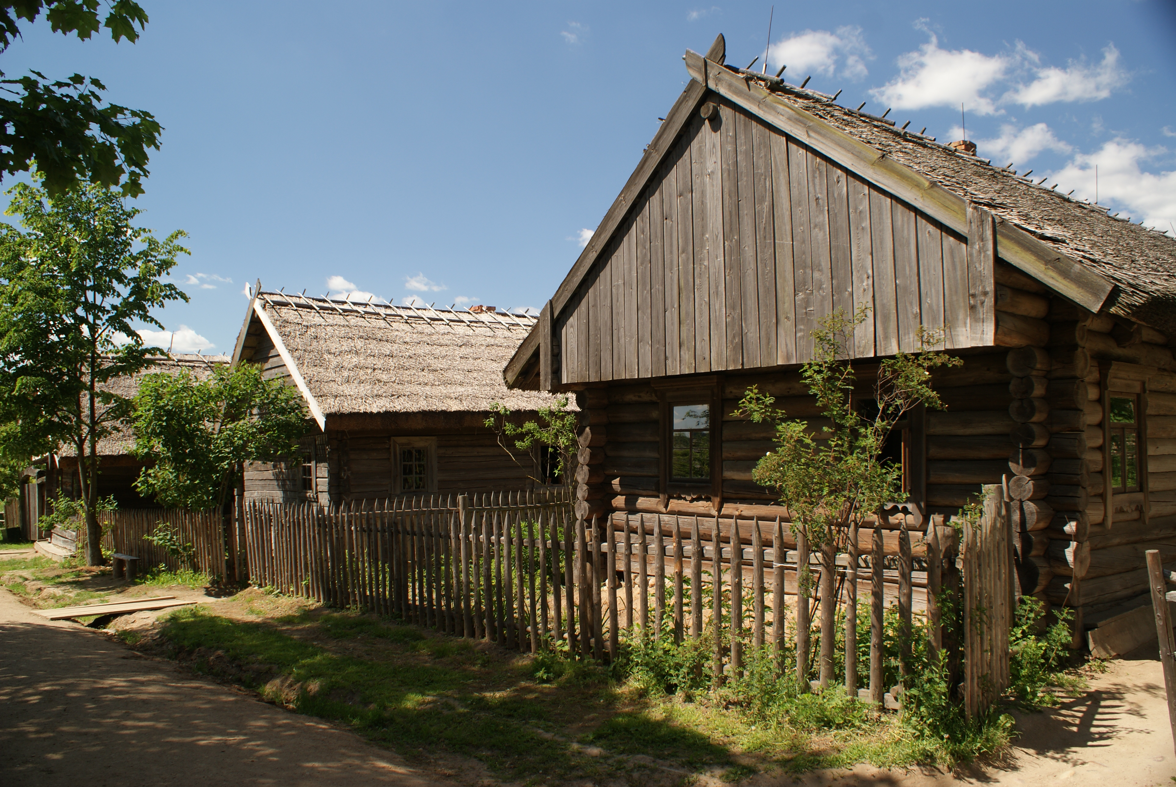 Village street in State museum of folk architecture and life